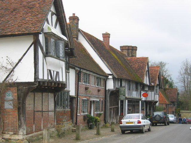 Chiddingstone Village High Street The 16th and 17th century houses of Chiddingstone High Street are owned by the National Trust.